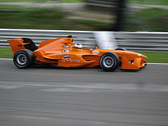 Author: waldopepper (flickr username) License: Creative Commons